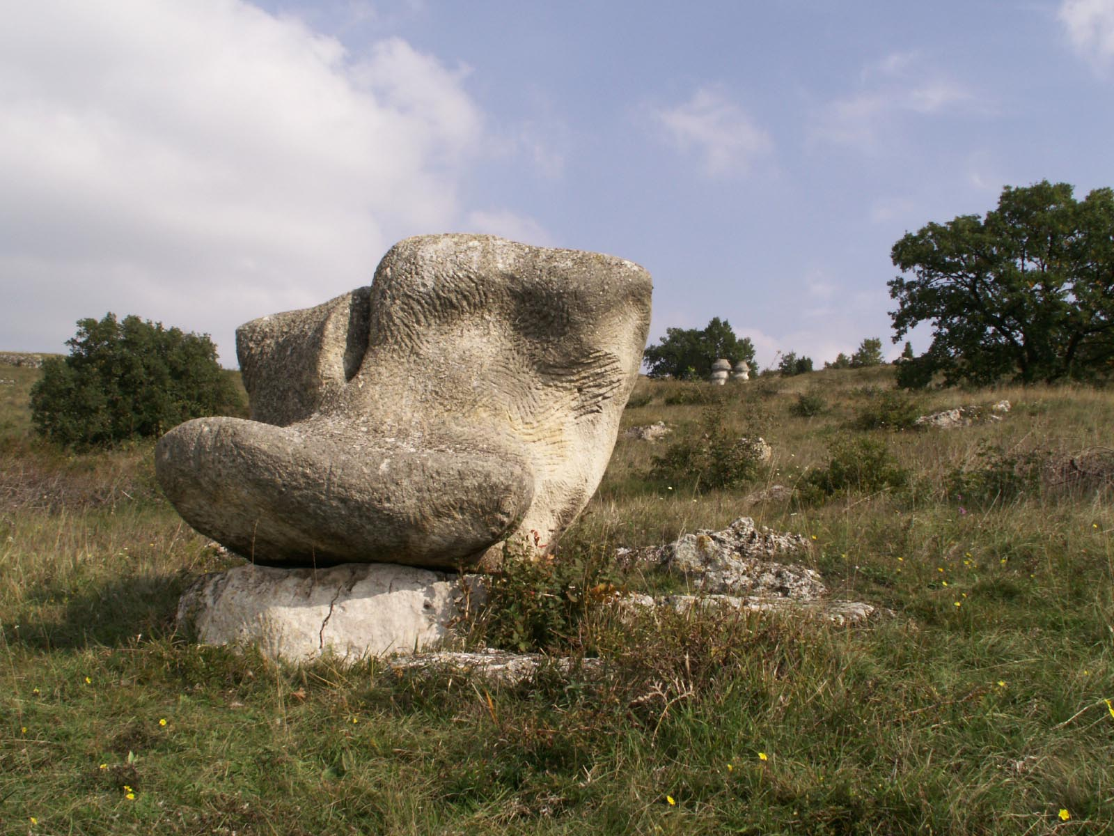 „Symposion Europäischer Bildhauer“, St.Margarethen – Burgenland/Austria,Alina Szapocznikow, 1961